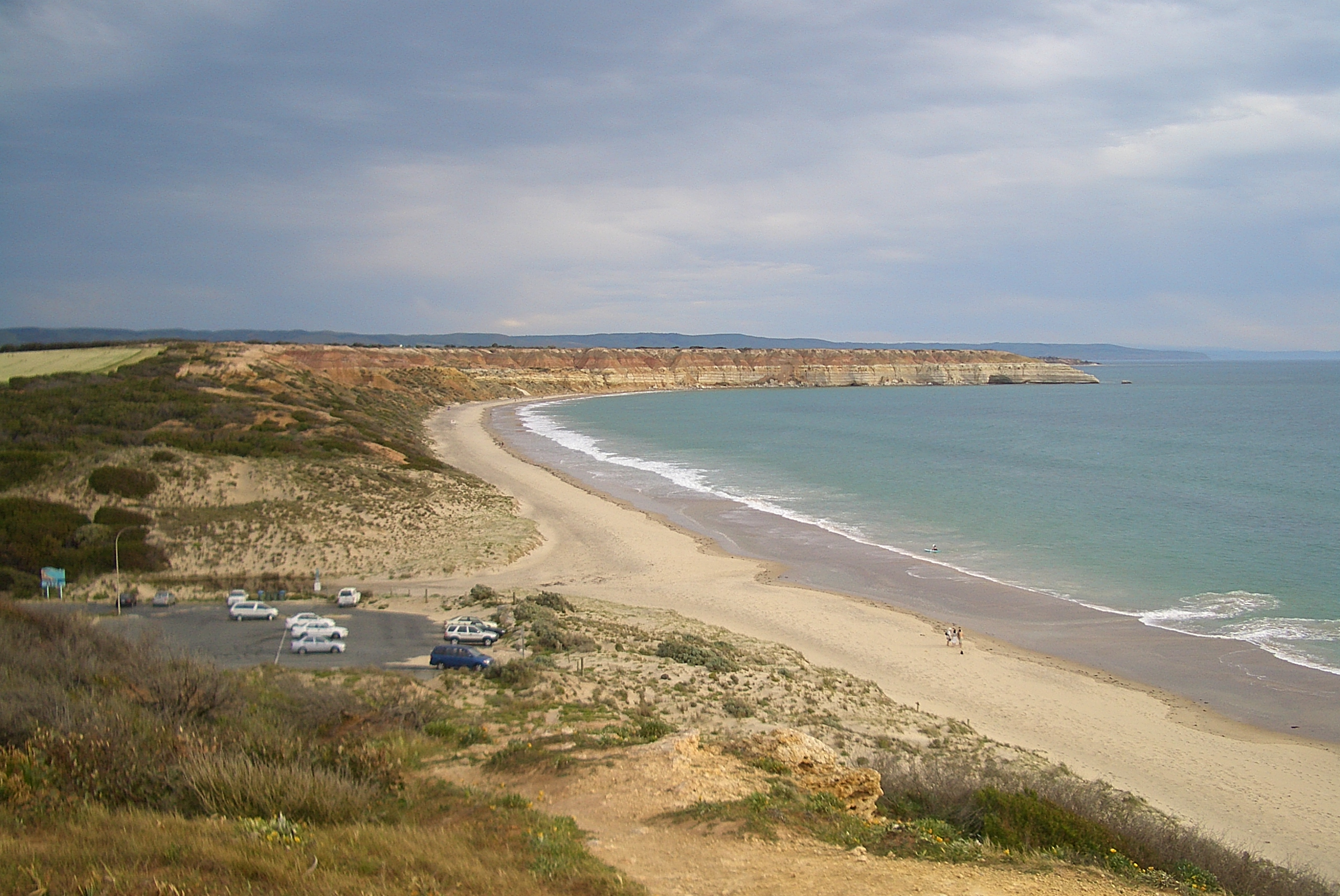 Maslin Beach in late September or early October